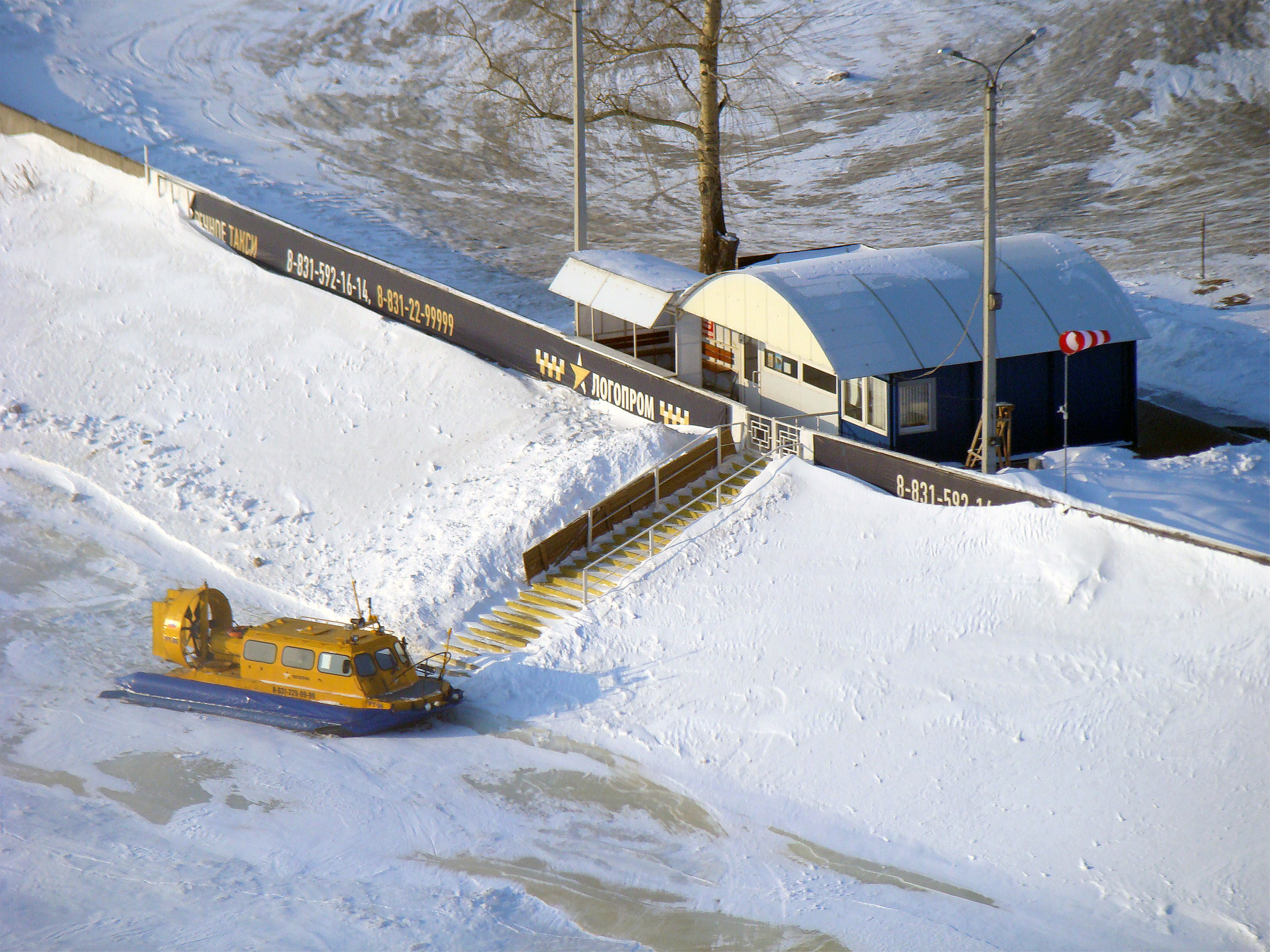 Hovercraft ferry (KHIVUS-10) is operating the Nizhny Novgorod-Bor Route on the Volga River